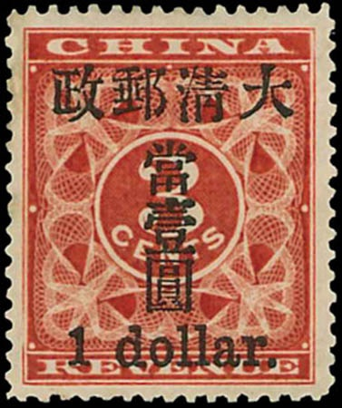 China 1 dollar on 3 cents overprint of 1897